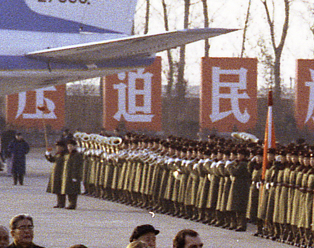 Escorted by Deng Xiao Ping, President Gerald Ford inspects the Honor Guard at Peking Capital Airport upon his arrival in China.